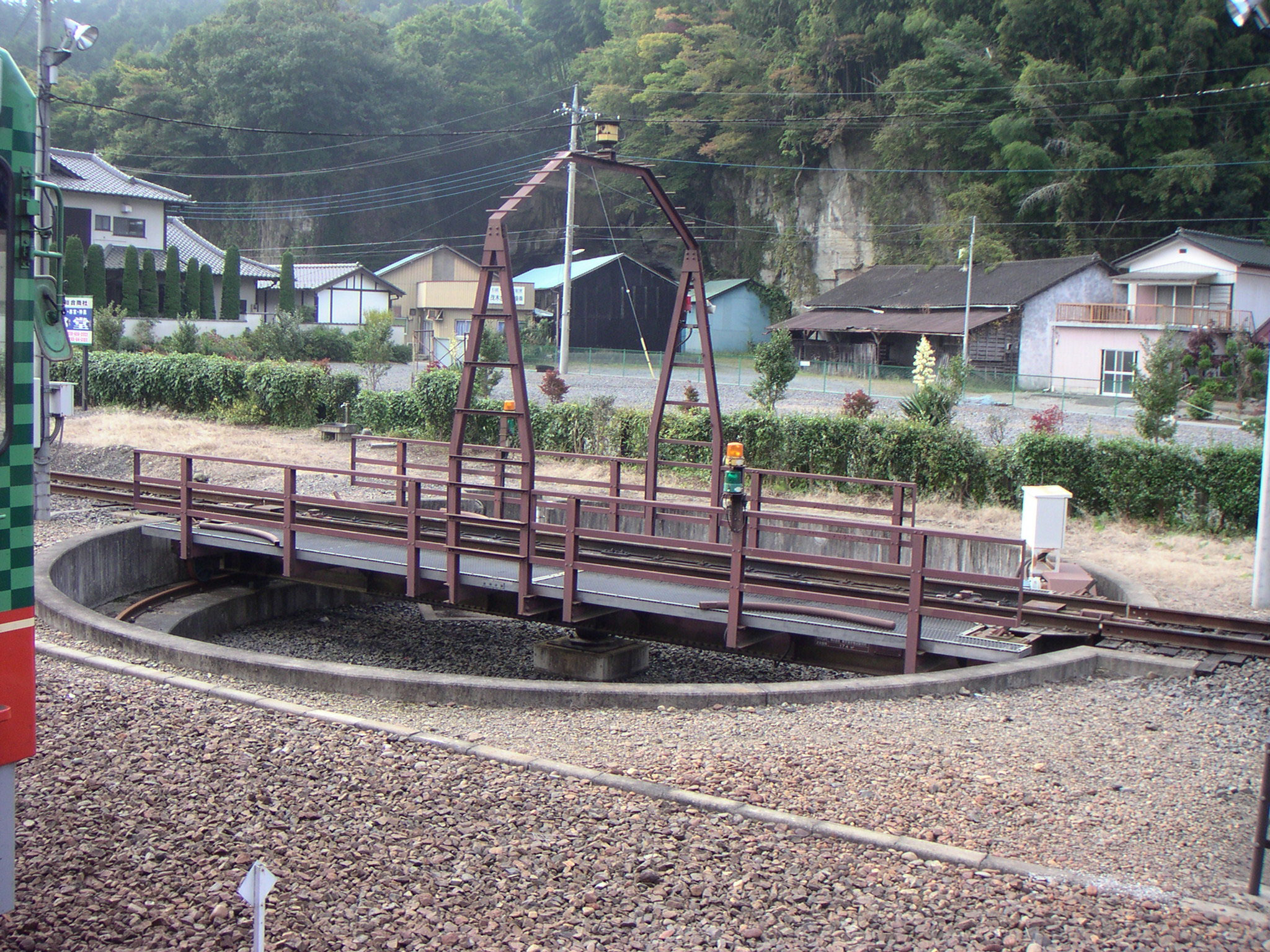 Motegi Station